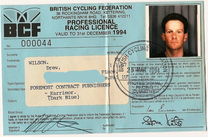 Race licence used by Wilson